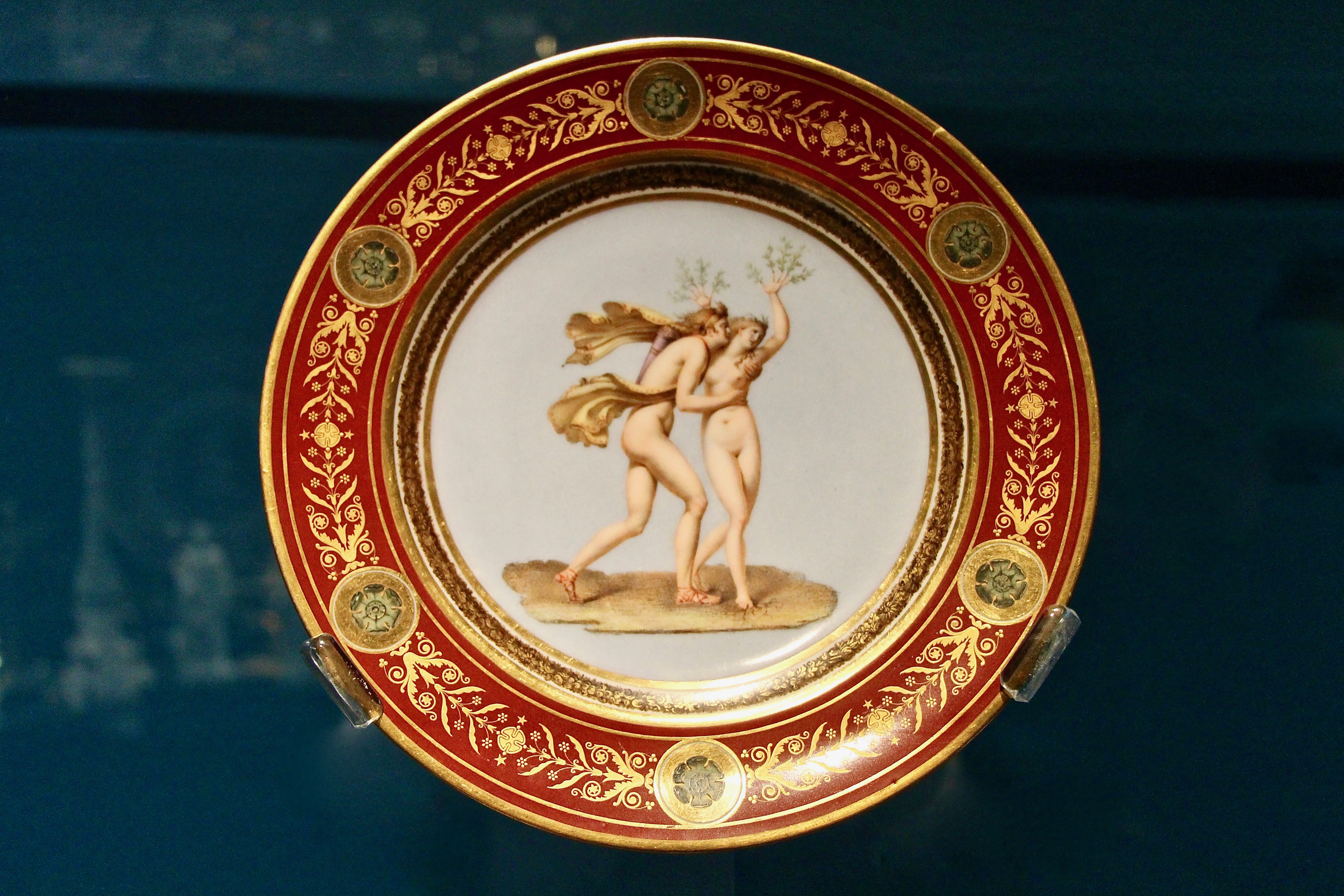 Sèvres Imperial Manufactury, Decoration painted by Marie-Victoire Jaquotot, Plate from the Olympic services, Apollo and Daphne, 1806, Hard-paste porcelain, Sèvres, Cité de la céramique.